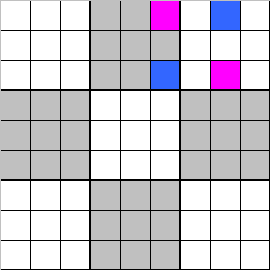 Standard Sudoku with n^2 x n^2 - 4 givens and 4 empty cells. If in a (completely filled) solution, the pink entries correspond to one missing digit and the blue entries to another then exchanging the digits renders a different solution.